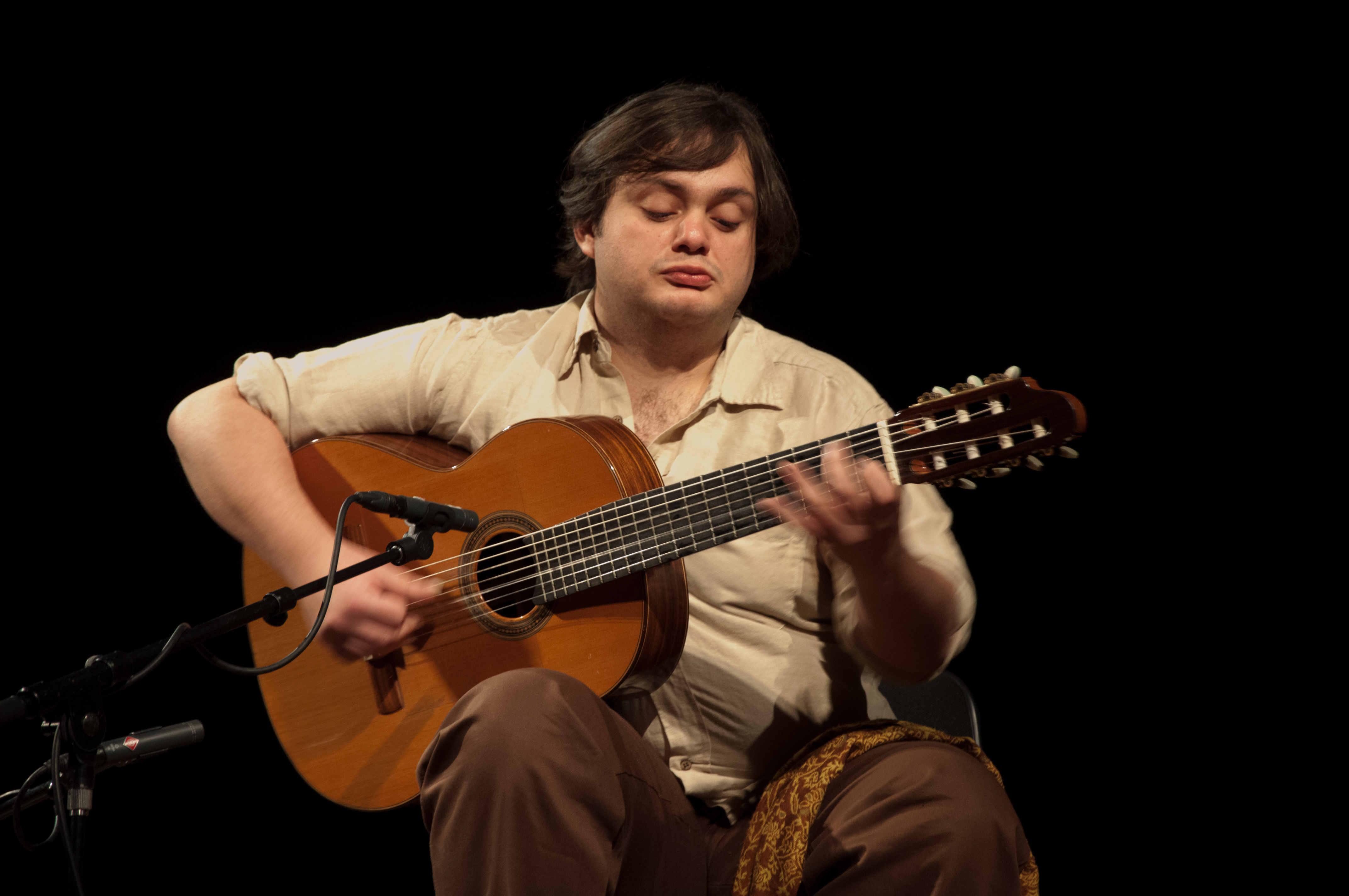 Yamandu Costa, Live in Paris